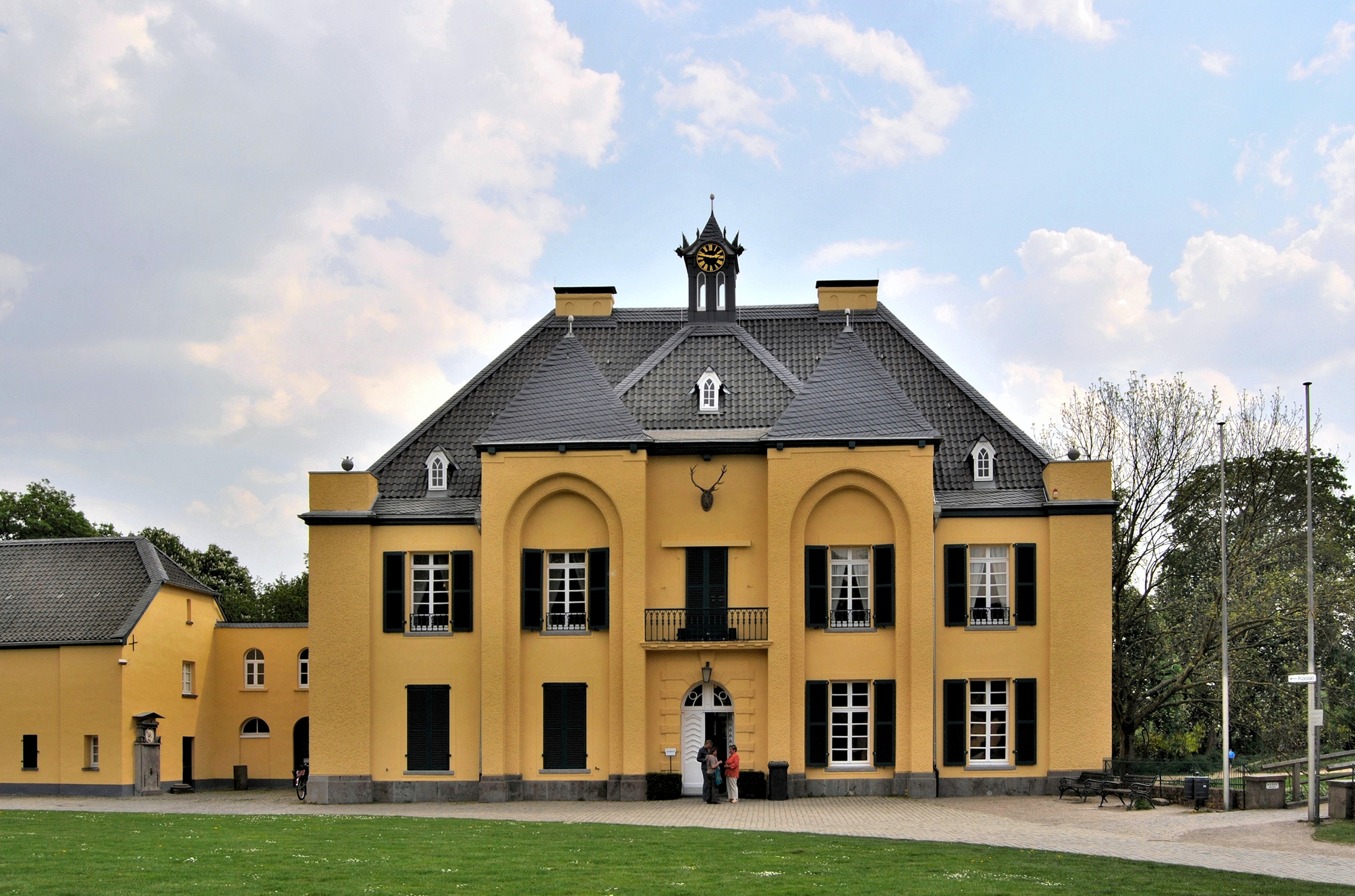 Krefeld (North Rhine-Westphalia, Germany) – Linn Castle – hunting lodge